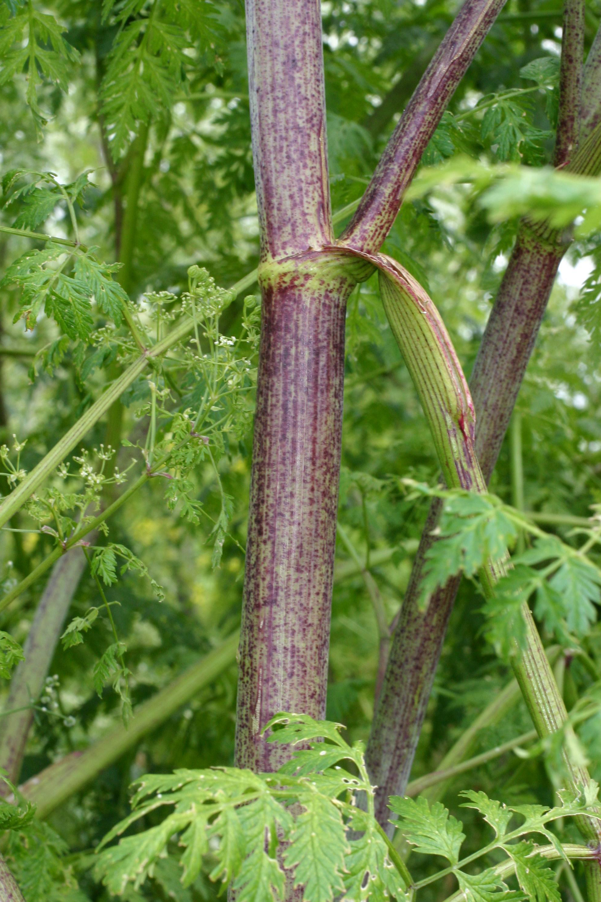 poison-hemlock Conium maculatum L. Descriptor: Stem(s) Description: characteristic stem with purple spots Image type: Field Image location: Oregon, United States